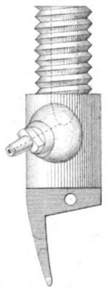 Breech plug with percussion cap nipple